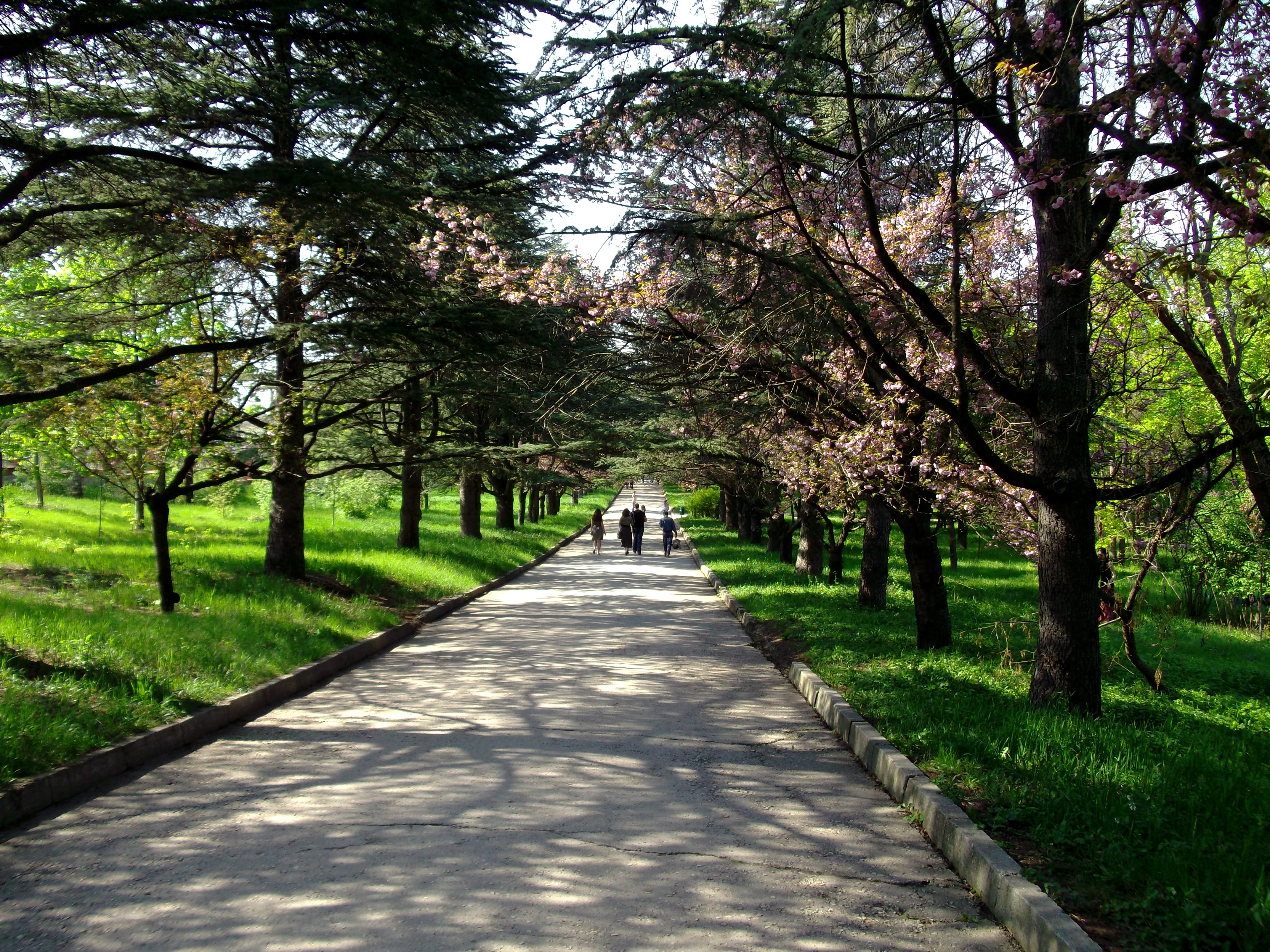 The botanical garden of the Taurida National Vernadsky University in Vorontsovsky park in Simferopol, the capital city of the Autonomous Republic of Crimea, Ukraine.